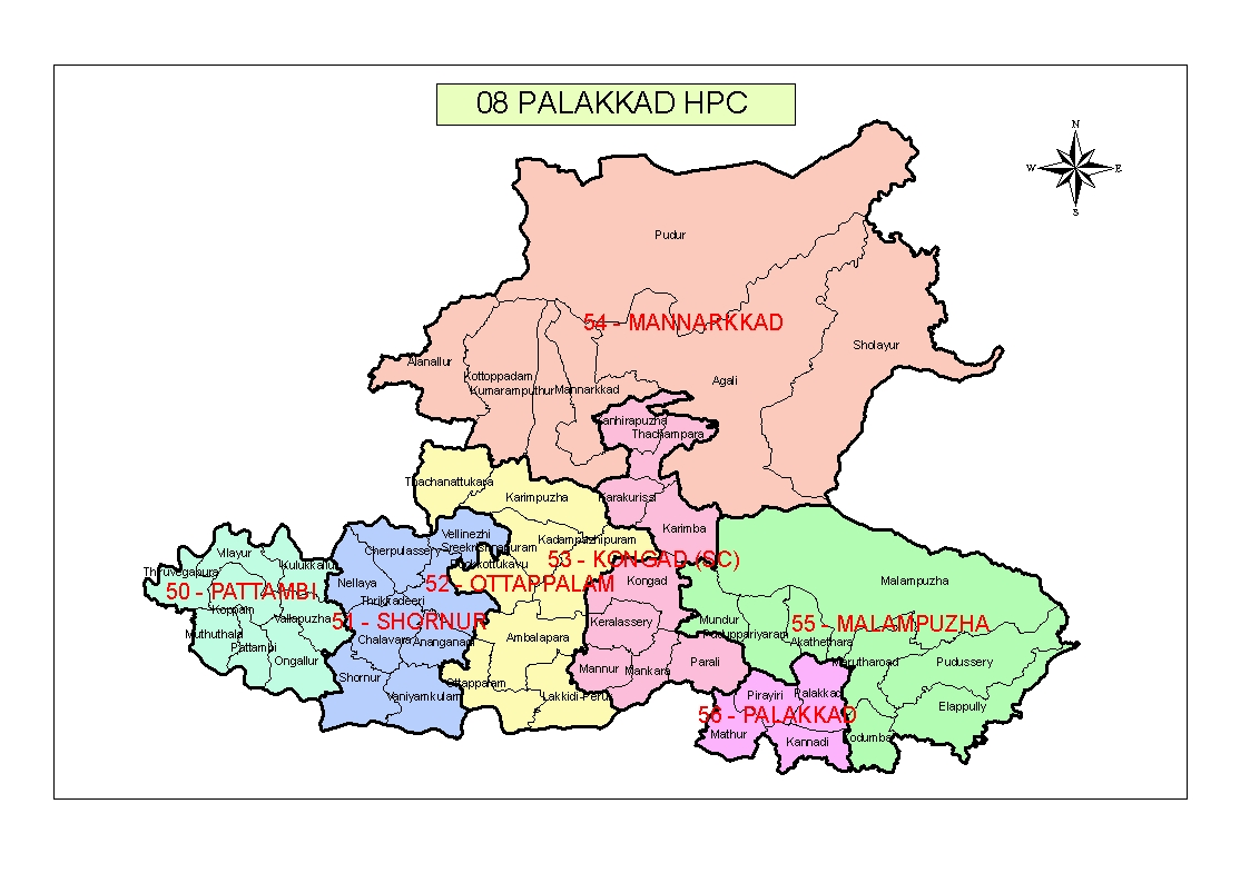 This is the map of Palakkad Lok Sabha Constituency